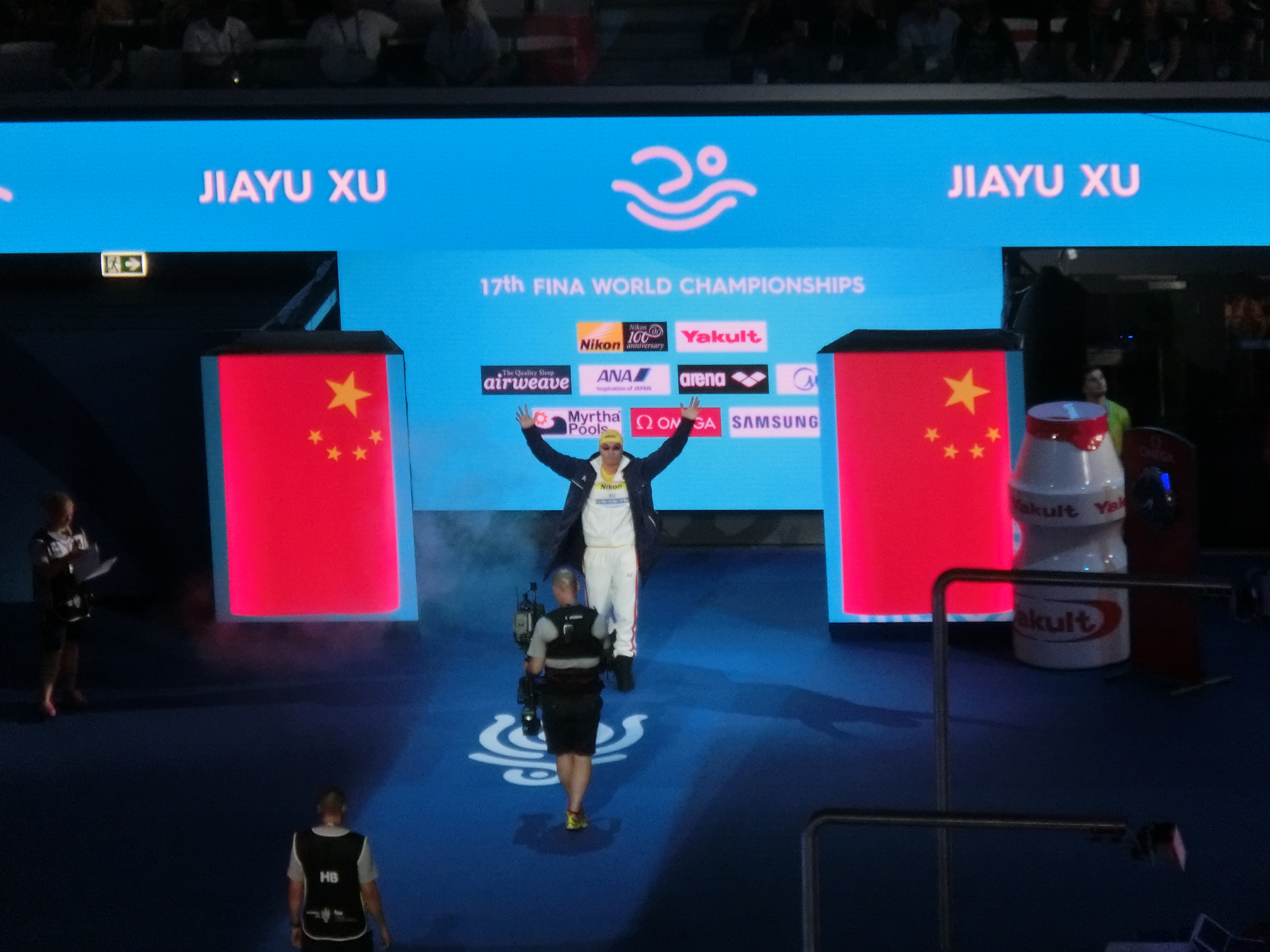 FINA World Championships, Budapest, 2017-07-25, 100m backstroke final, Jiayu Xu (China)